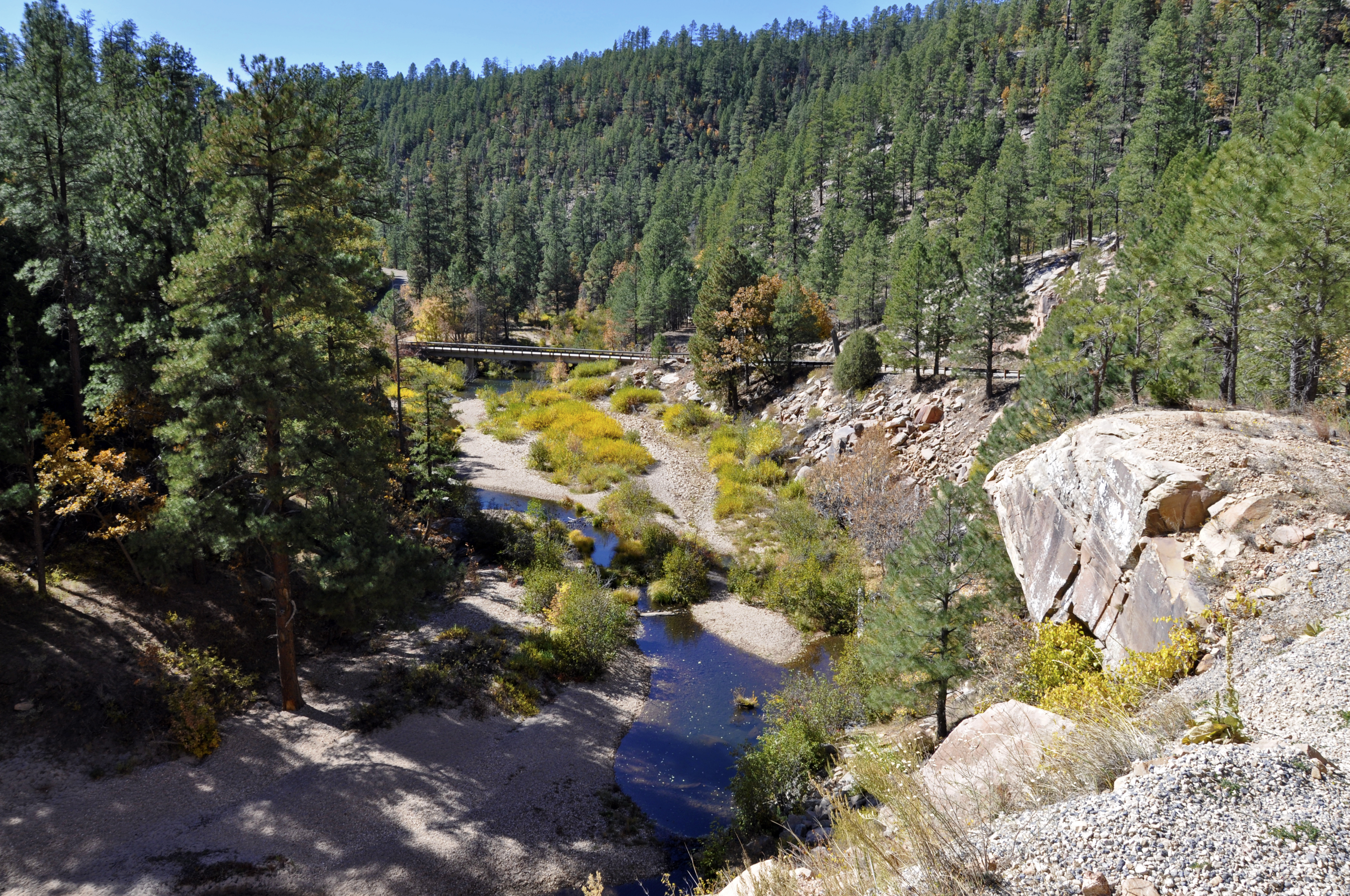 A bridge spans East Clear Creek in the Mogollon Rim Ranger District, which is off of Forest Road 95. Taken 10-14-09 by Brady Smith. Credit: U.S. Forest Service, Southwestern Region, Coconino National Forest.